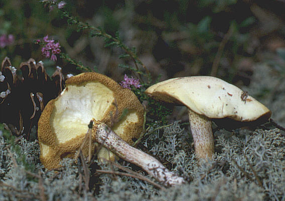 Fruit bodies of the bolete fungus Suillus placidus Fotograf: Walter J. Pilsak, Waldsassen Copyright Status: GNU Freie Dokumentationslizenz